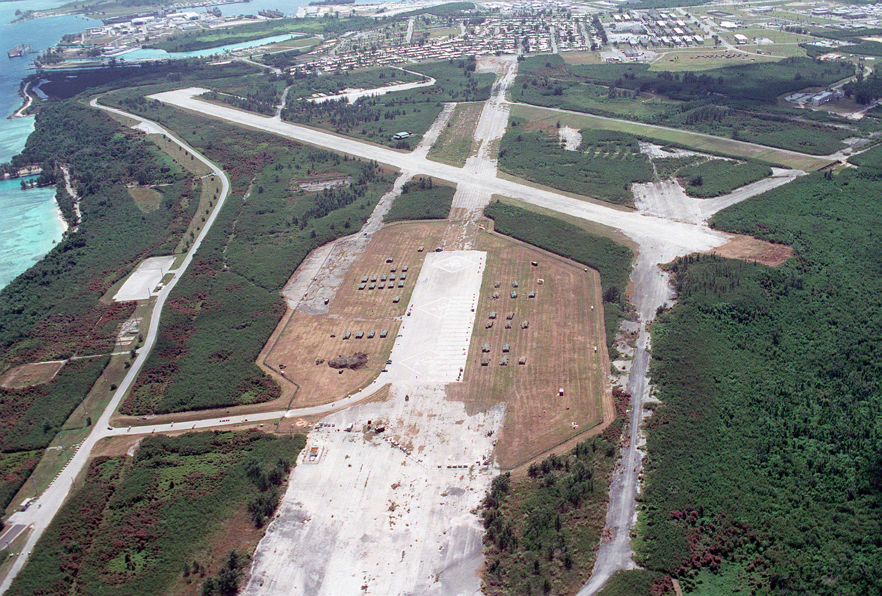 Aerial view of Orote Peninsula, Guam, showing the tent city living facilities for deployed U.S. Military personnel at the former airfield during exercise "Tandem Trust '99" on 24 March 1999.